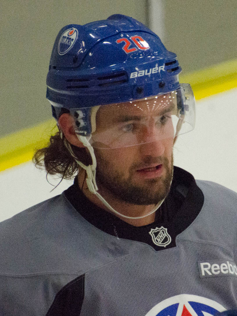 Luke Gazdic at an Edmonton Oilers practice, Sept. 27, 2014